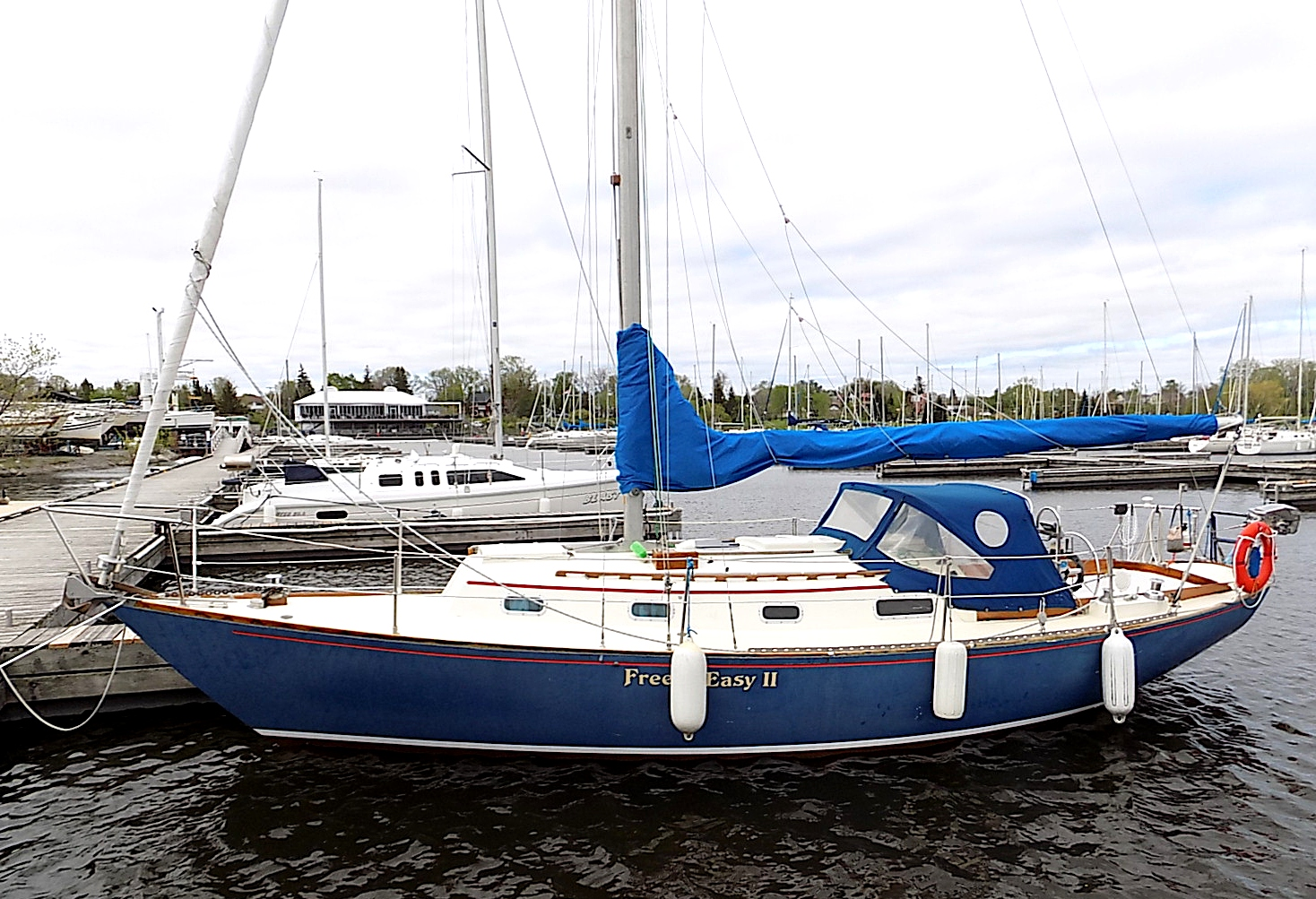 A Corvette 31 sailboat built by C&C Yachts, named Free N Easy II.